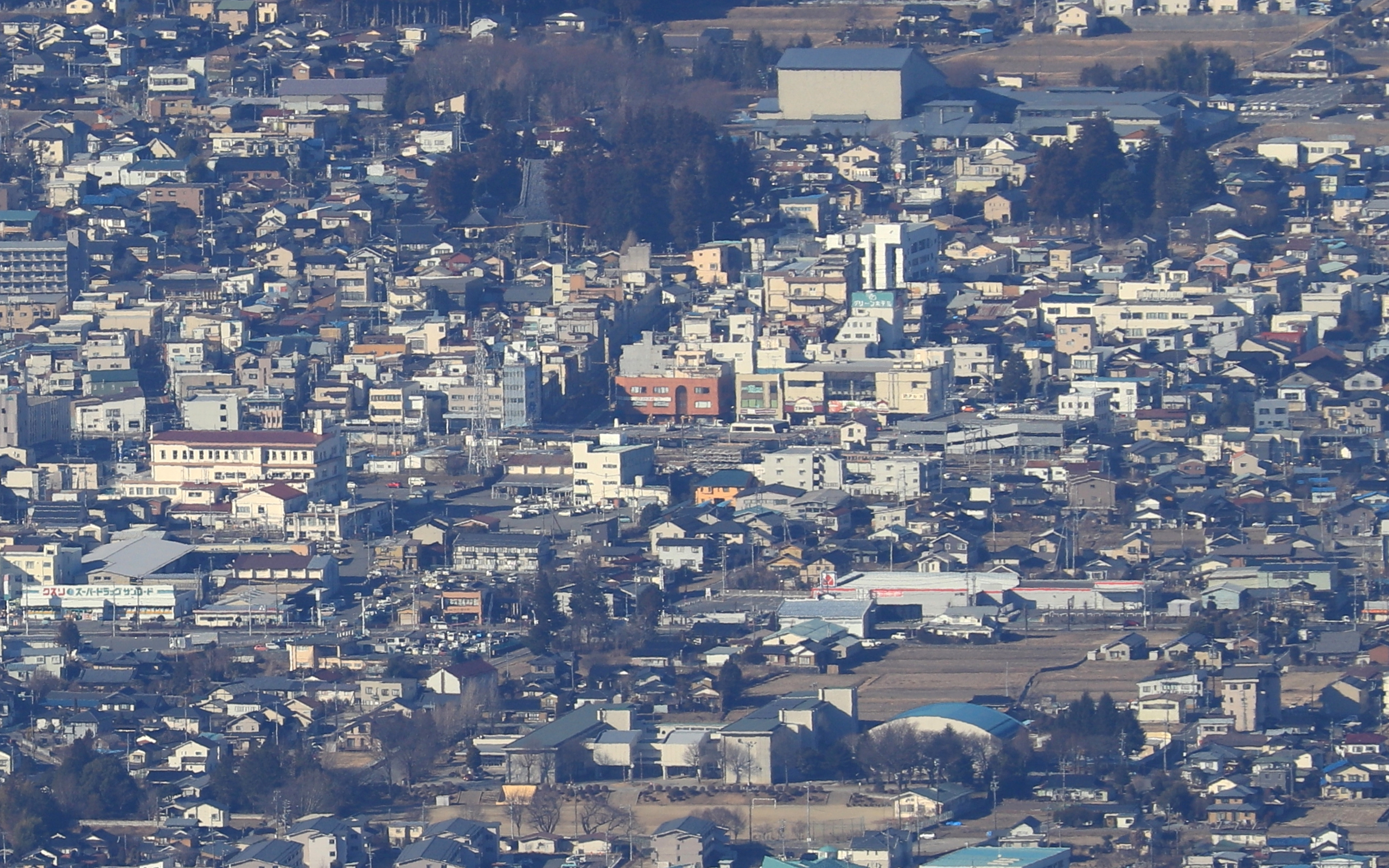 Komagane Station seen from Mount Tokura in Komagane, Nagano Prefecture, Japan. Canon EOS Kiss X9